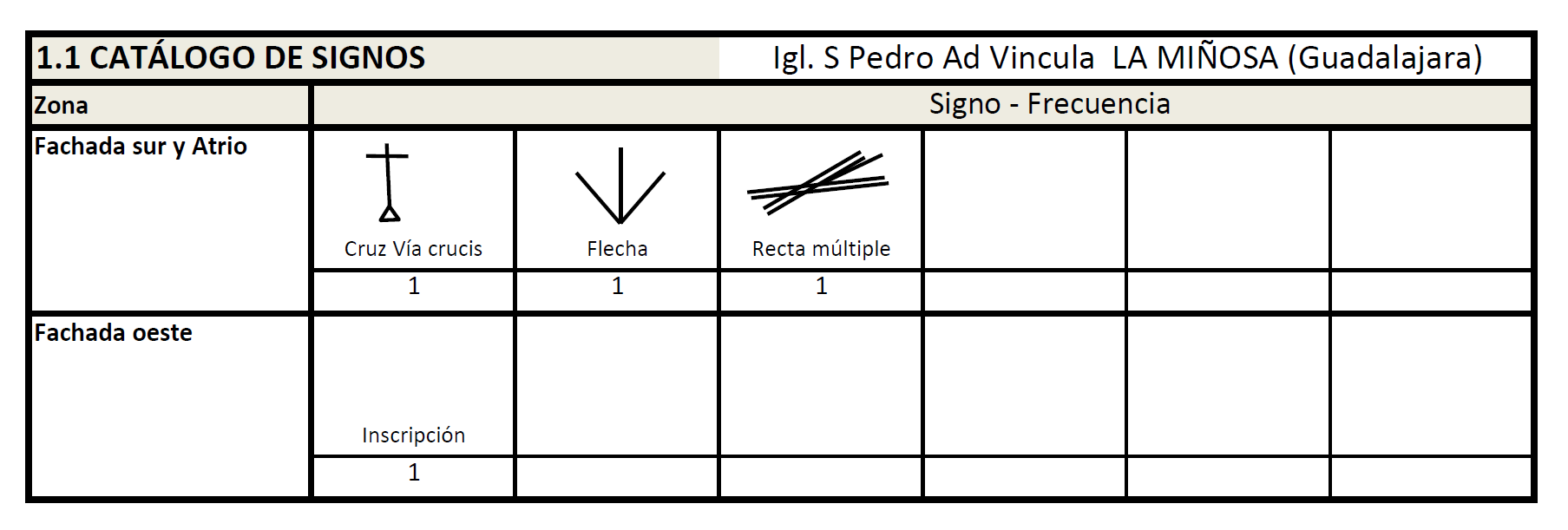 San Pedro Ad Vincula Church, LA MIÑOSA (Guadalajara) Spain. Romanesque. Stonecutter marks catalog.